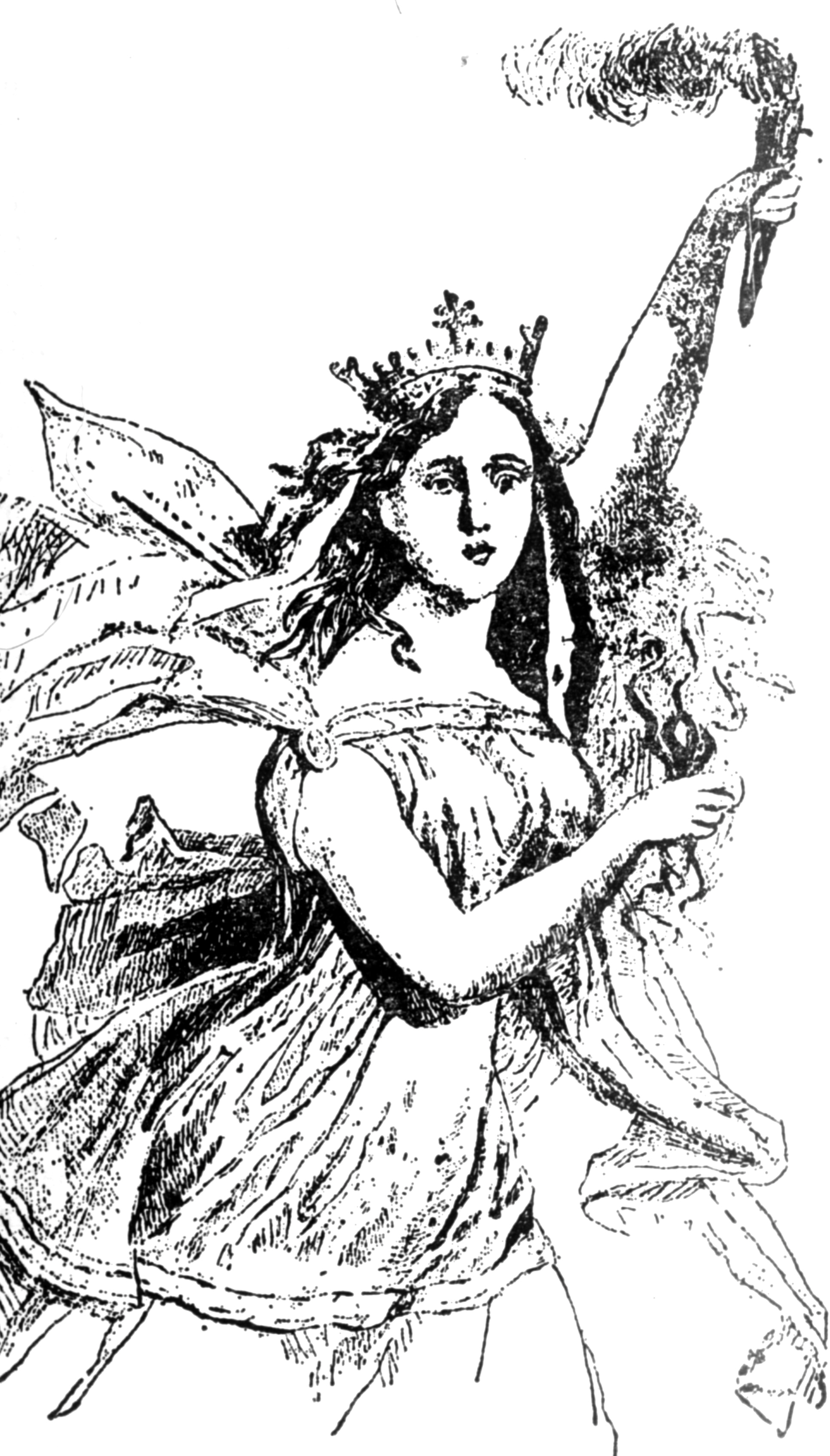 Illustration to the original copy of Nemesis, a poem by Romanian writer Dimitrie Bolintineanu